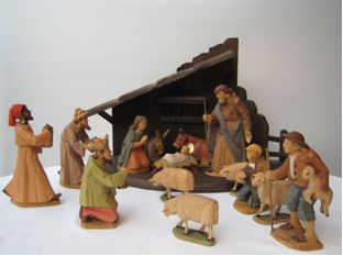 Maurer